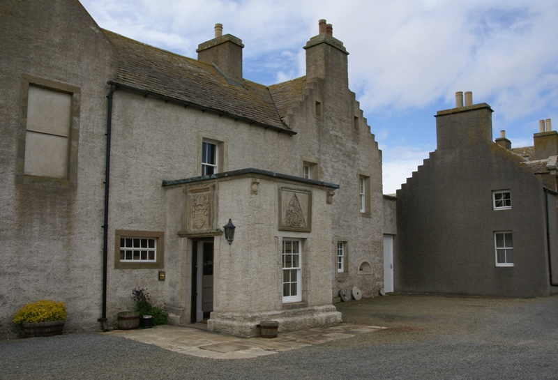 Skaill House, Mainland, Orkney, Scotland. East entrance.